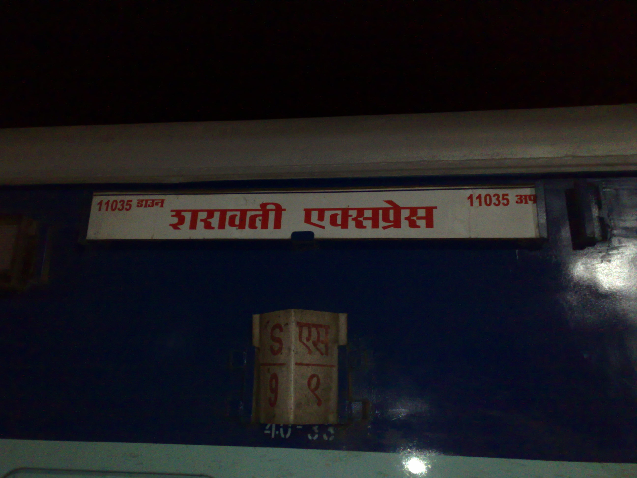 Sharavati Express trainboard